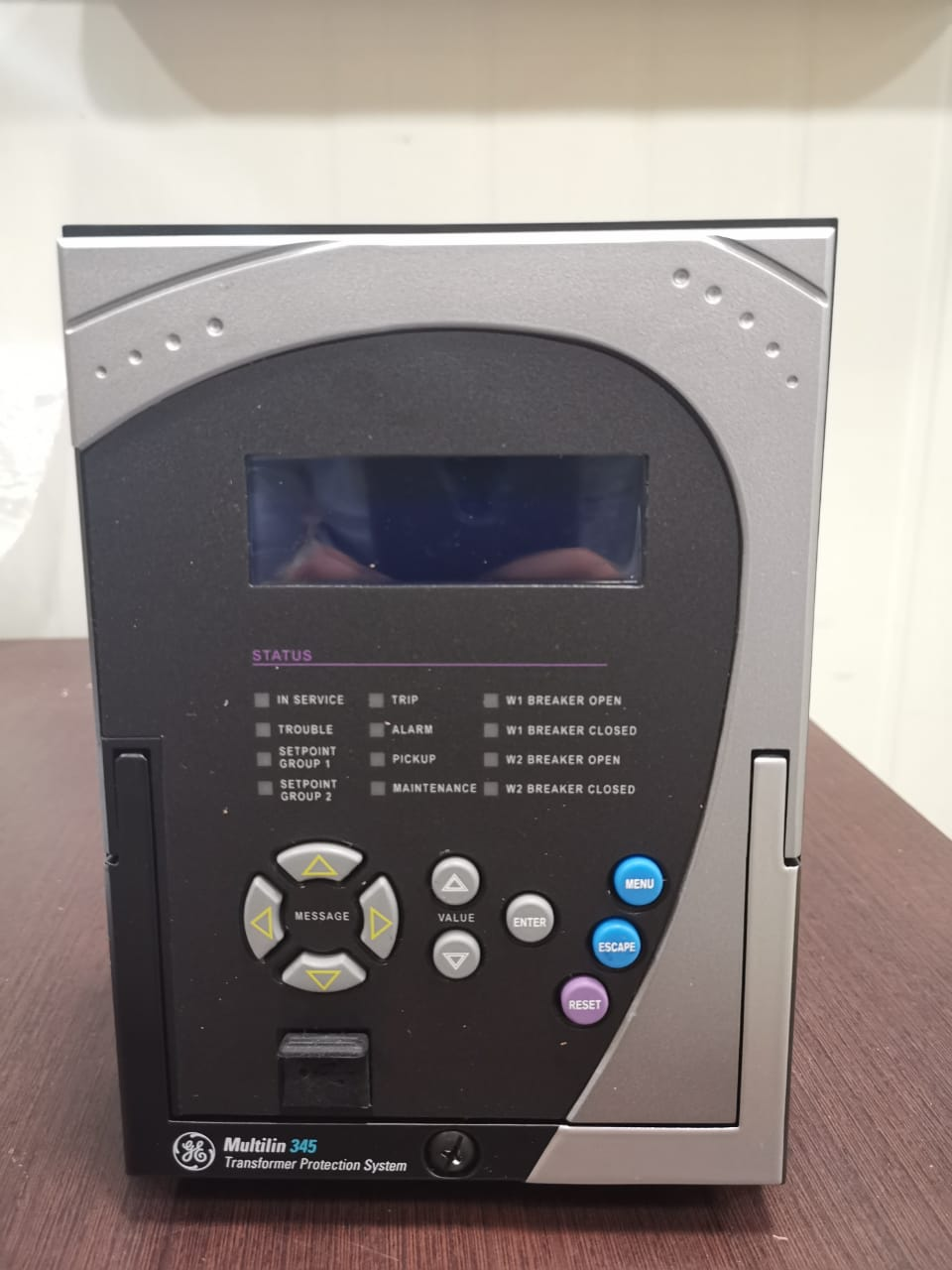 Relé de protección multifuncional para transformador